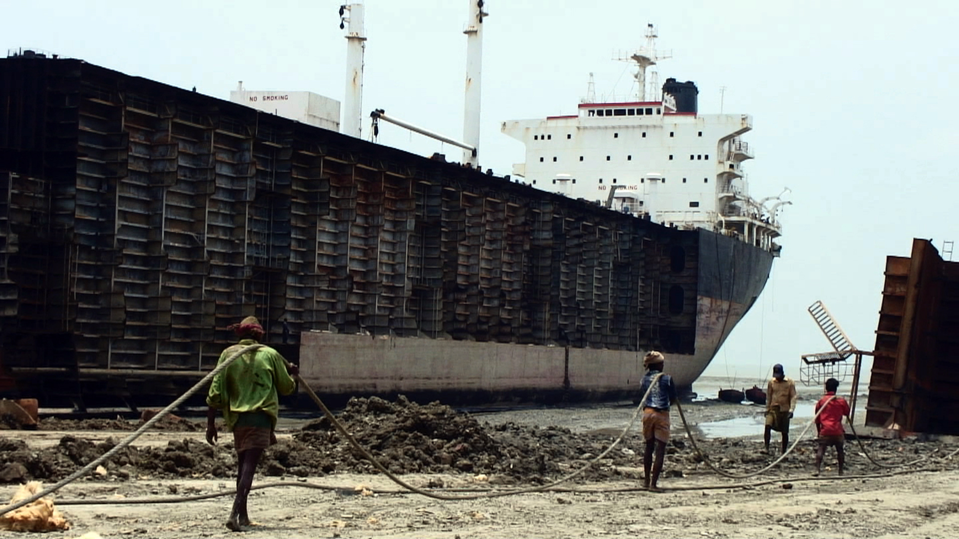 Ship breaking in Chittagong, a coastal province of Bangladesh